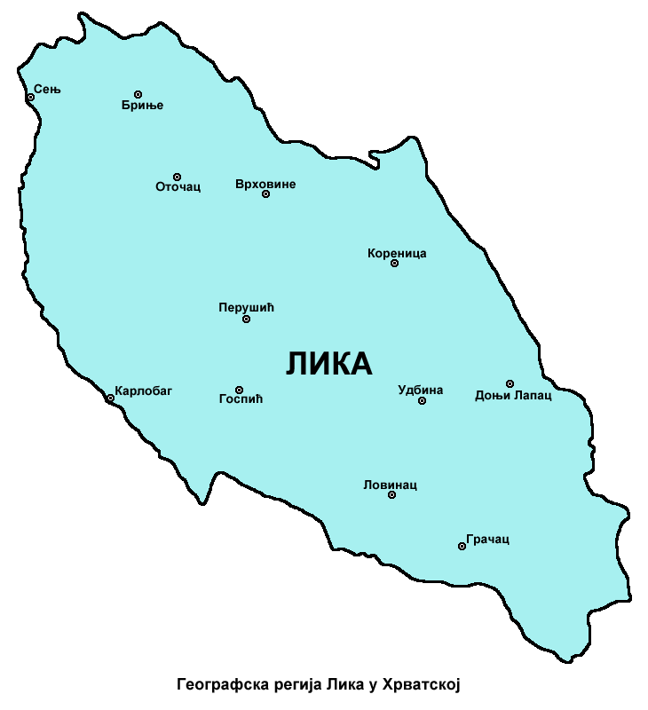 Geographical region of Lika in Croatia.